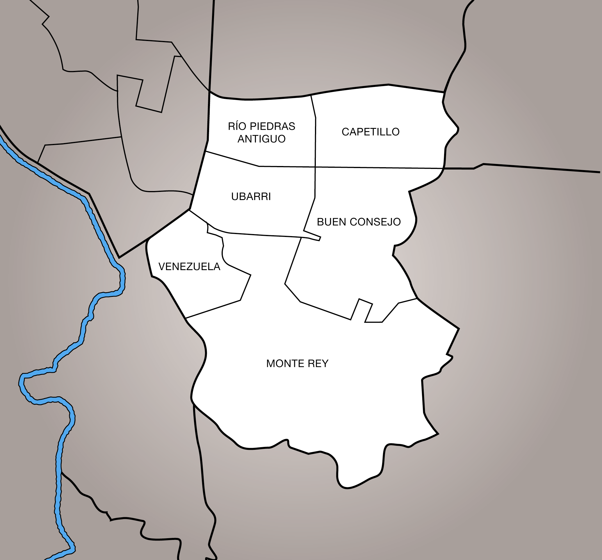 Sub-barrios of Río Piedras Pueblo